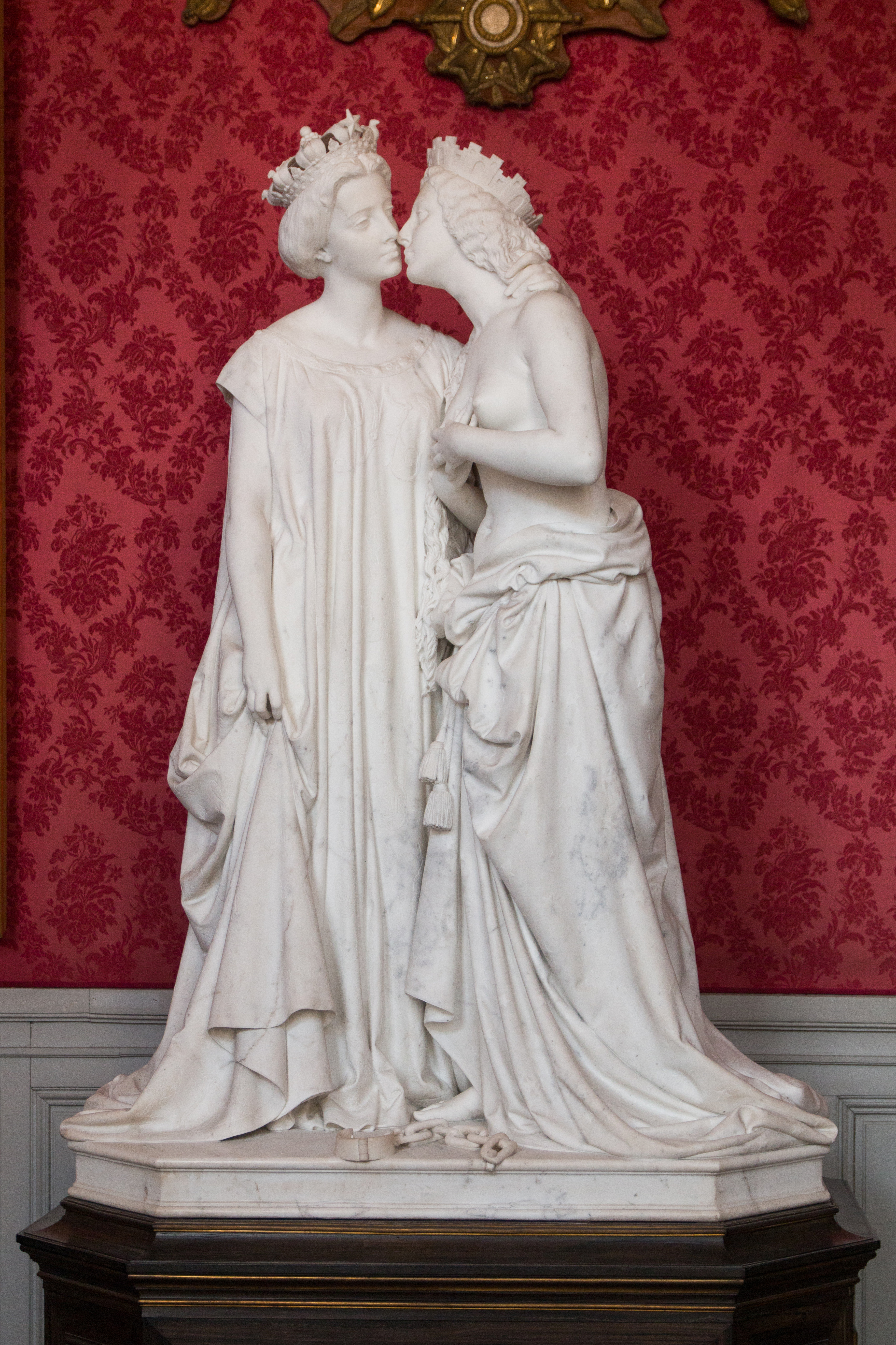 Just released from his chains Italy thanked Imperial France..